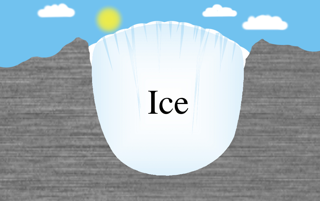 This JPG graphic was created with GIMP. U-shaped valley english text - Information for this image can be found in the book: Geografi A-kurs, Peter Östman, Olof Barrefors, Kalju Luksepp, sid 125, Liber AB, 2005, ISBN: 91-21-21110-8